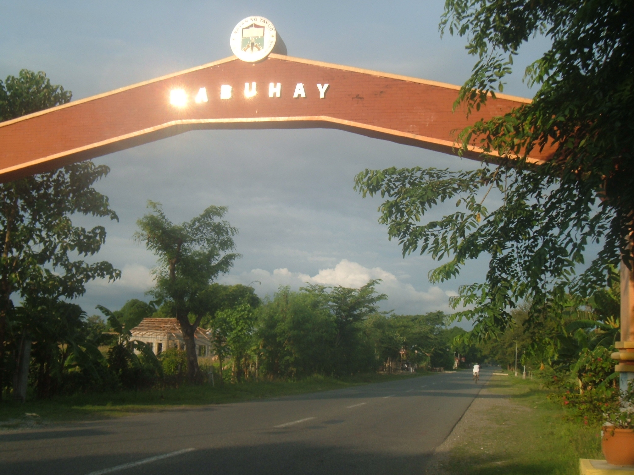 Sta.maria-tayug arch